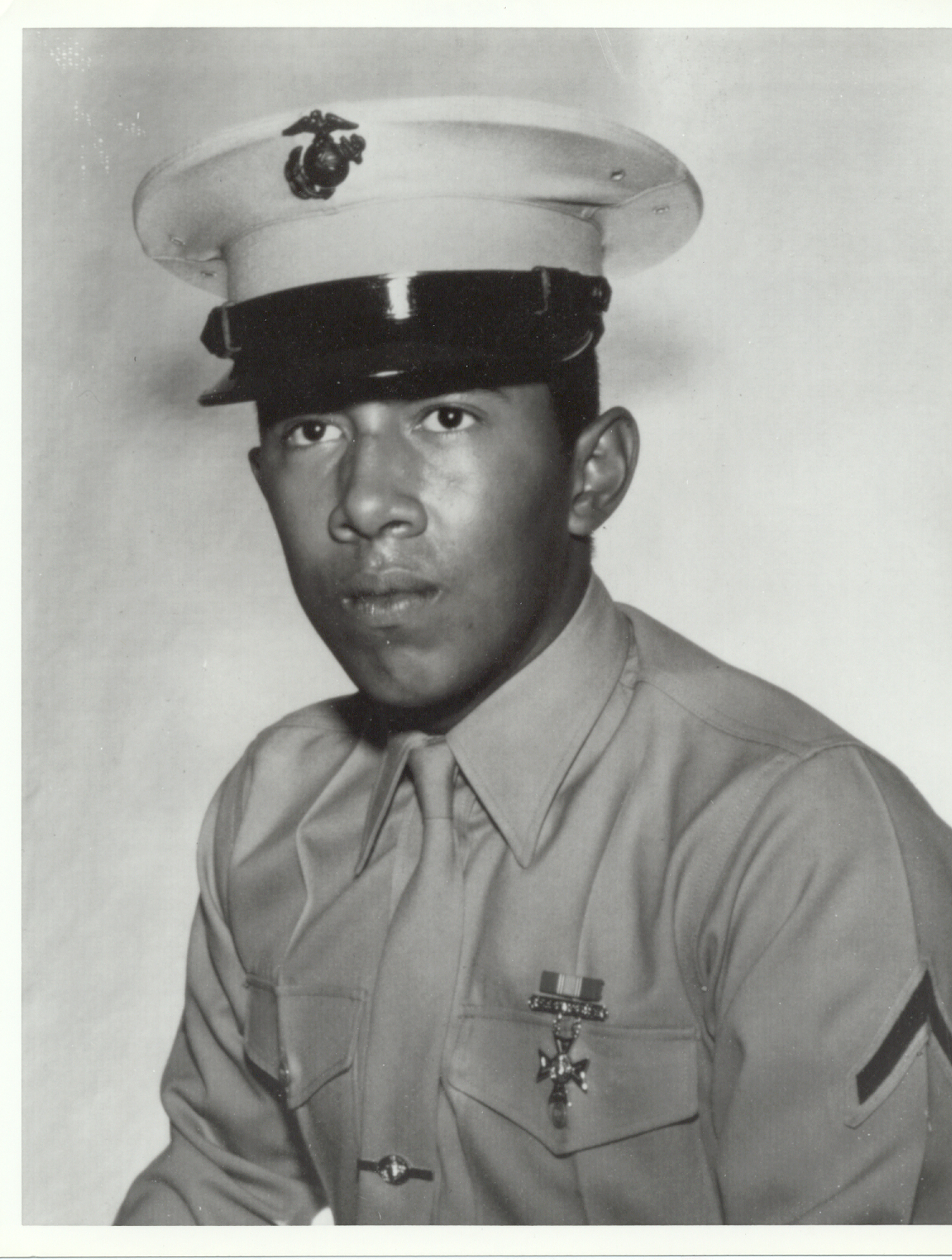 Miguel Keith, USMC (1951-1970); Medal of Honor recipient, killed in action in Vietnam Author: United States Marine Corps Source: Official Marine Corps biography Photo date: c. 1969 (note rank of Pvt) URL